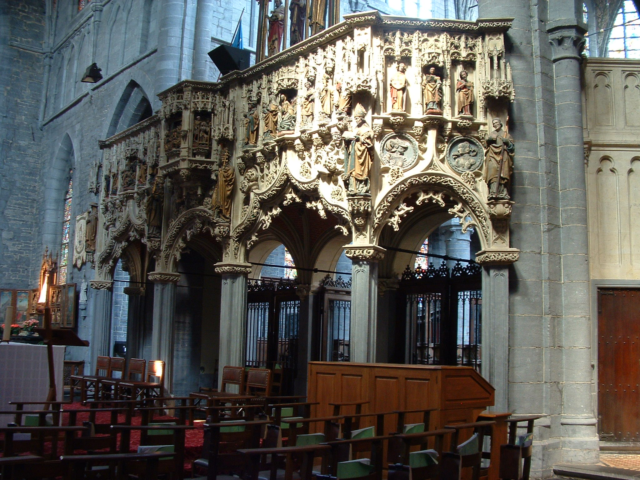 Interior of Basilique Saint-Materne, Walcourt.